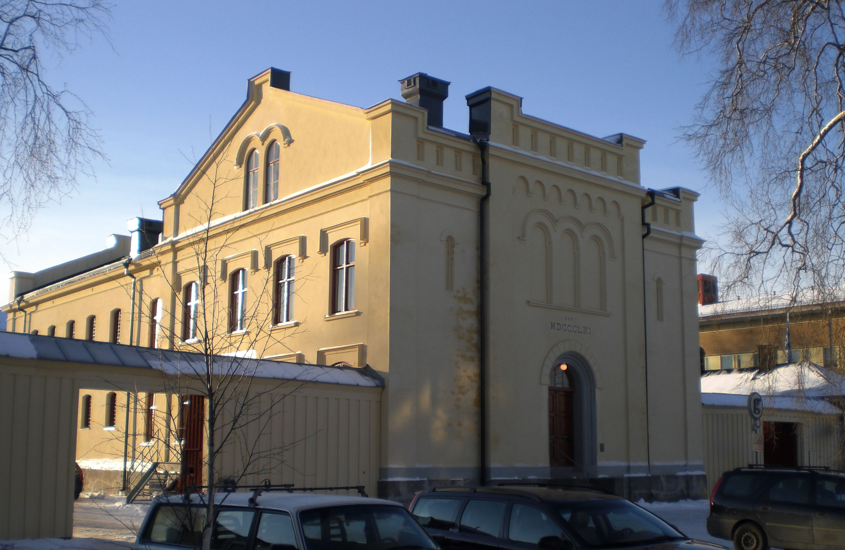 Umeå Old Prison, Umeå, Sweden